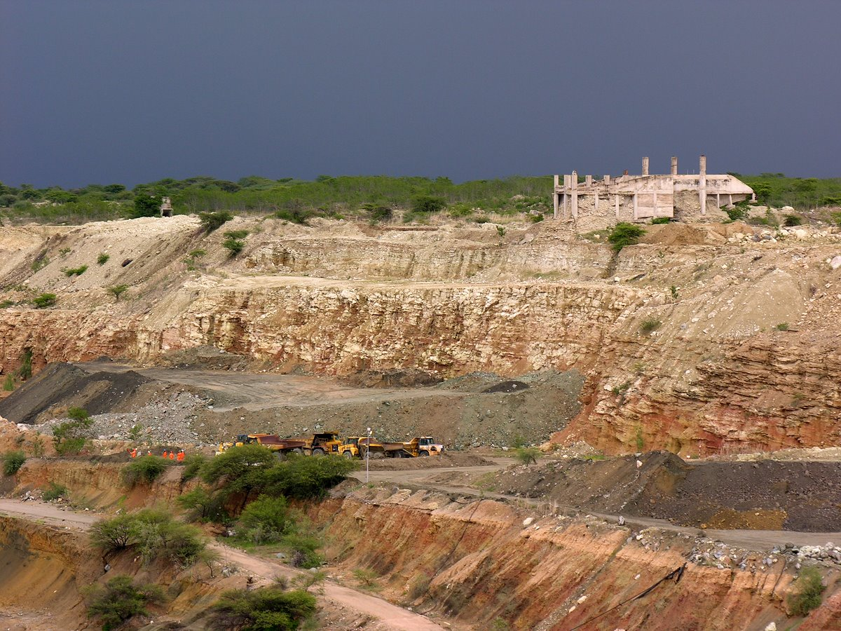 Williamson Diamond Mine in Mwadui, Tanzania